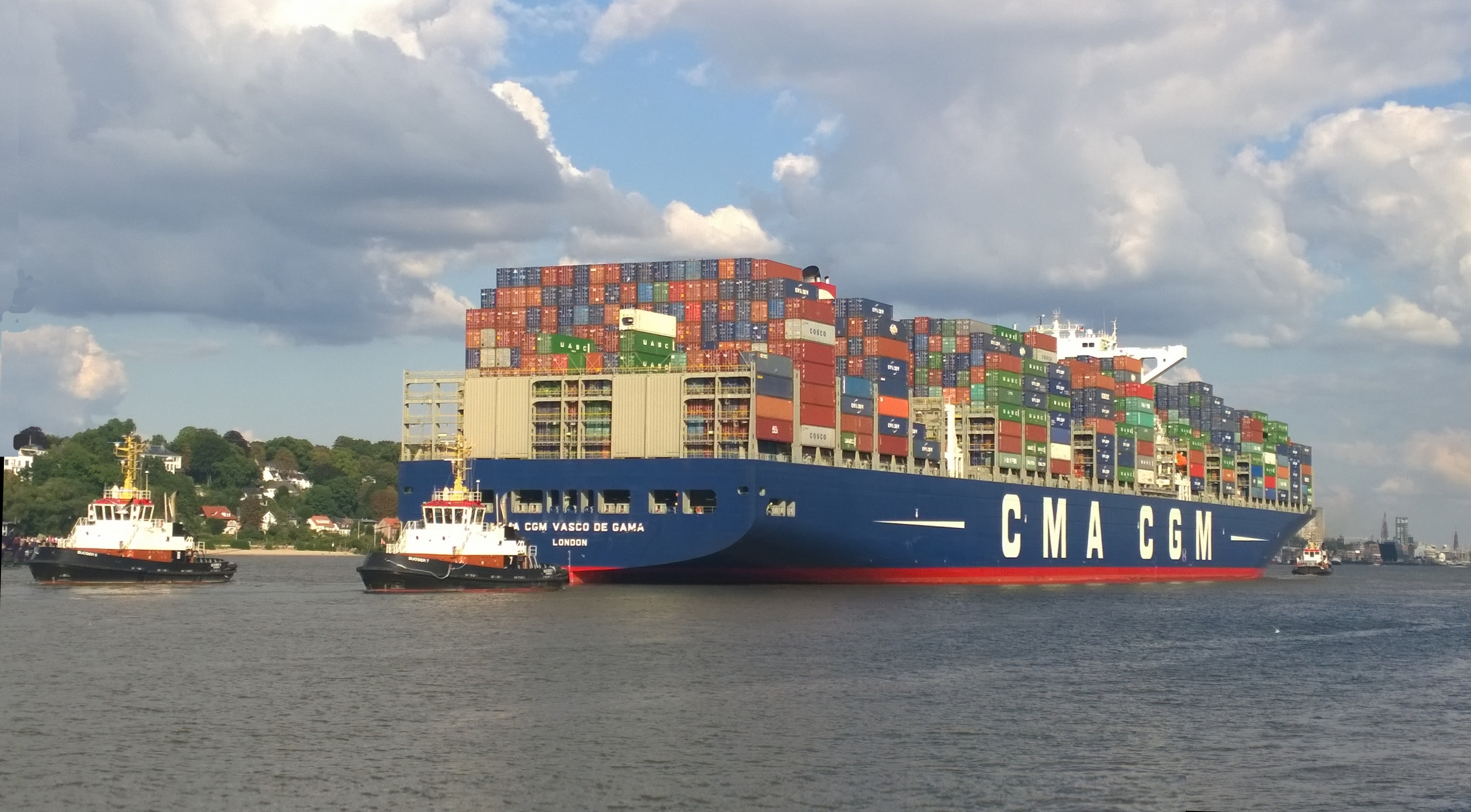 Container ship CMA CGM Vasco de Gama with destination port of Hamburg in September 2015